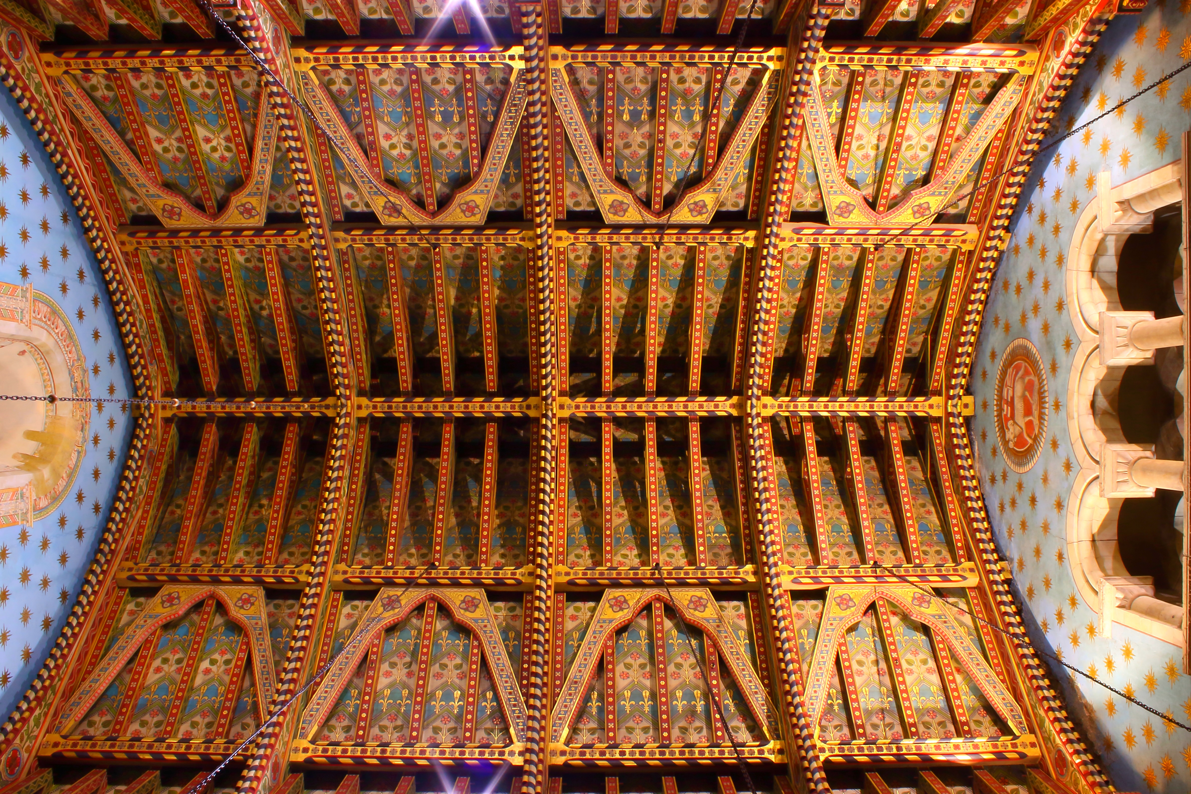 The ornate roof of St Michael's Church, Garton on the Wolds, East Yorkshire, UK. This is a small village church.